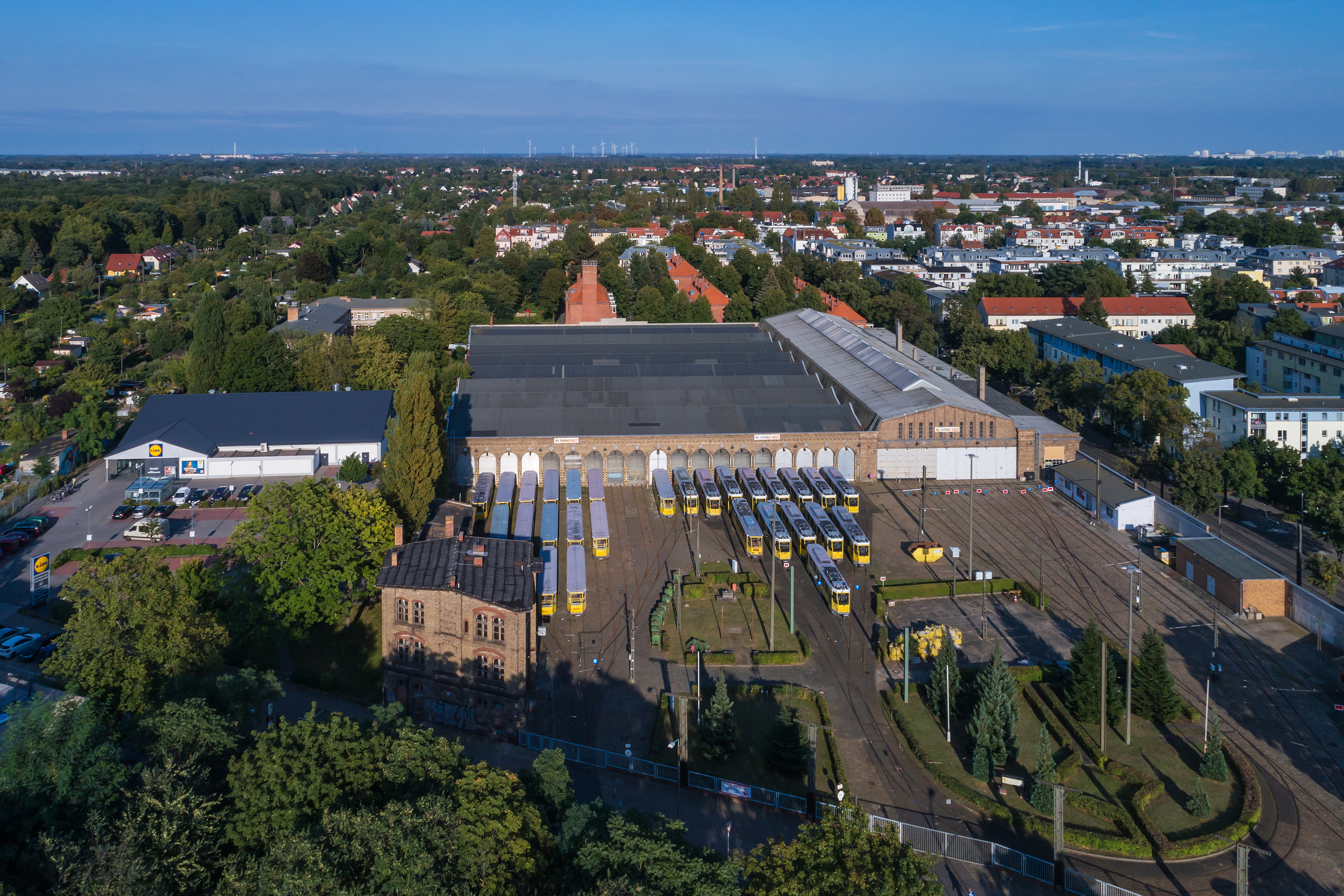 Niederschönhausen tram depot in Berlin (Germany)